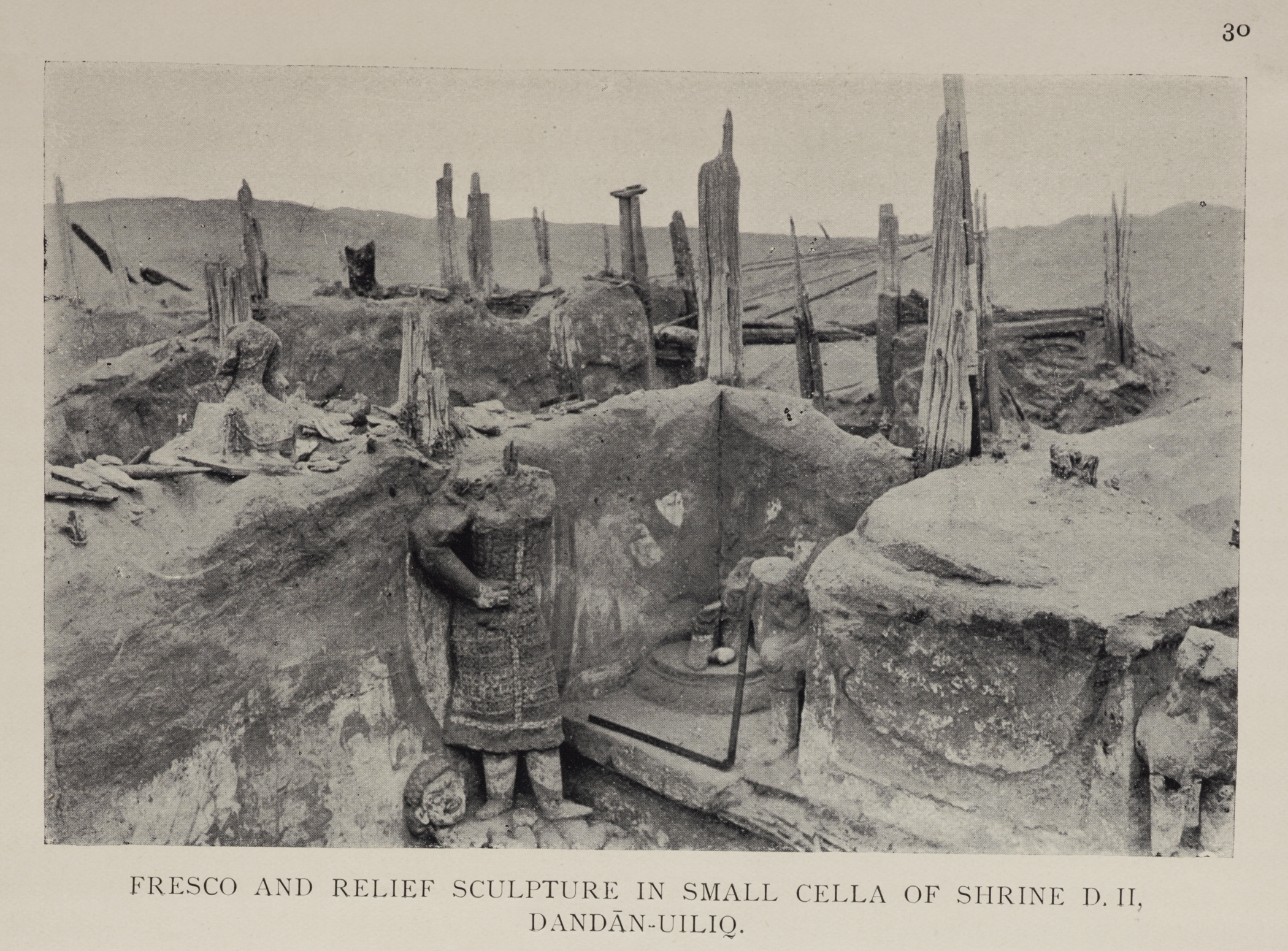 Wall painting and relief sculpture in small room of Buddhist shrine D.II., Dandan-Uiliq.